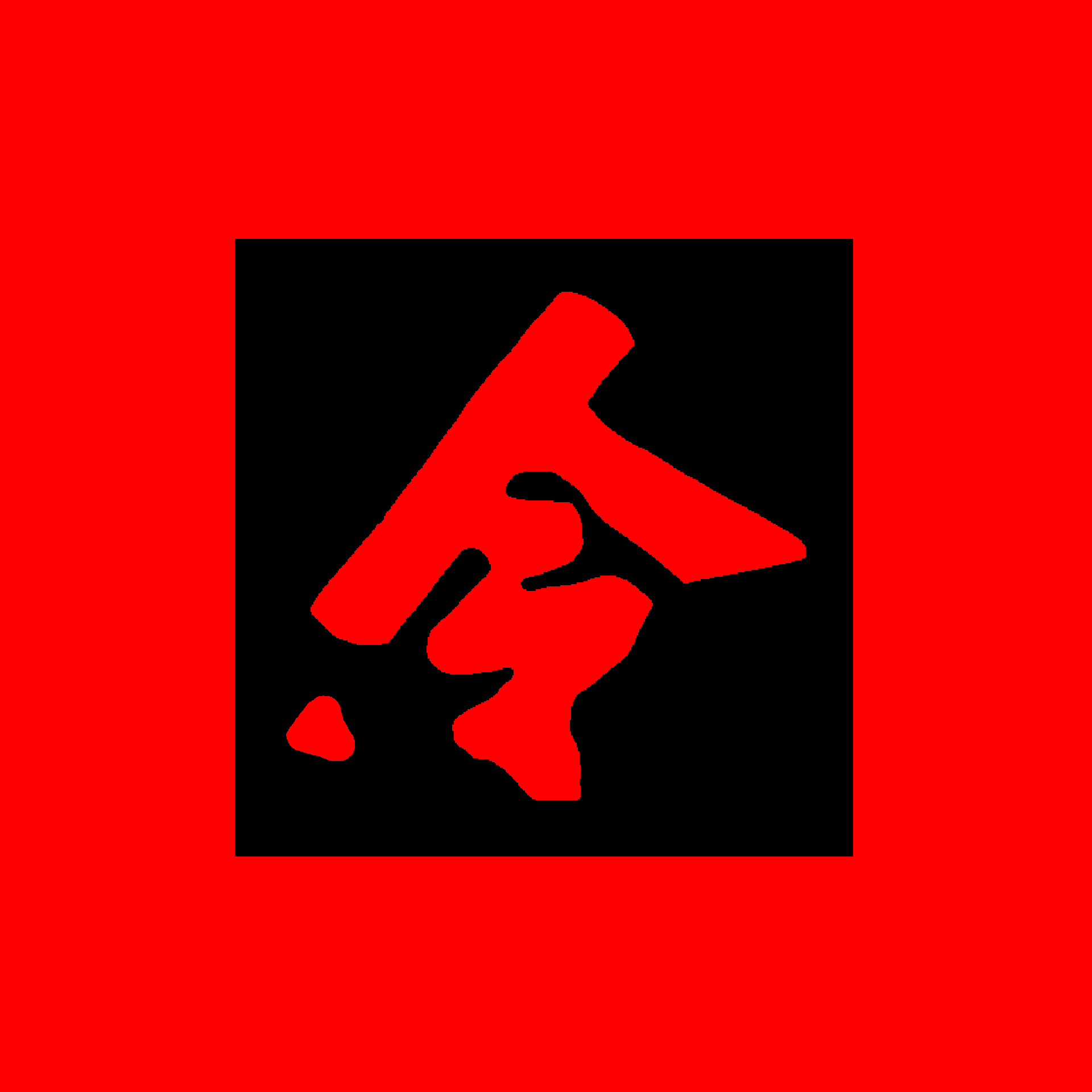 One of the war flags used by the Yihetuan (Righteous Harmony Society, or Fists of Righteous Harmony, popularly known as Boxers). Image based on a photo reproduced in the book "History and civilization of China" (Zhong Yang Wen Publishing, Beijing, 2006)